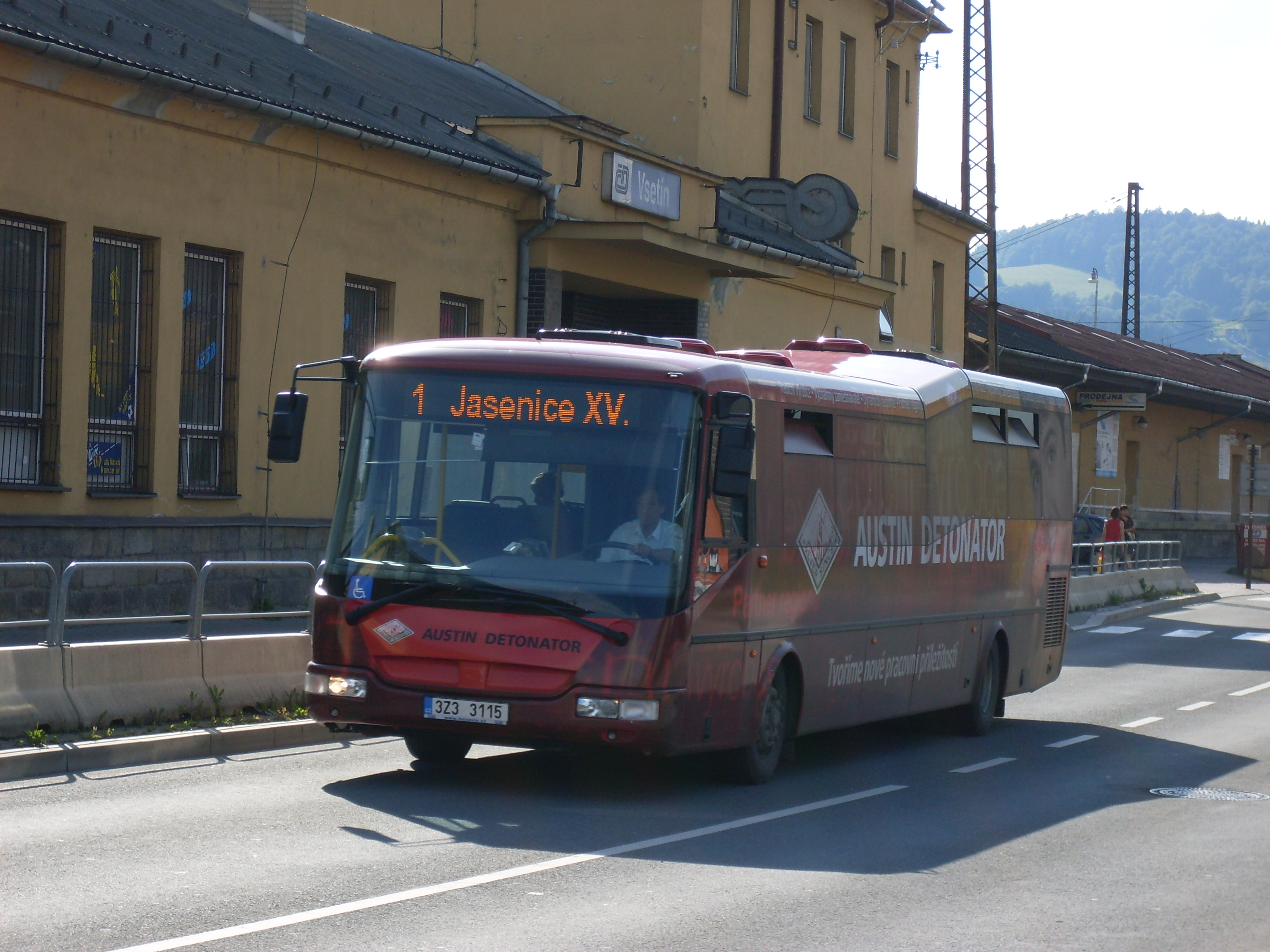 Low entry bus SOR BN 12 belonging to urban mass trasportation of city Vsetín